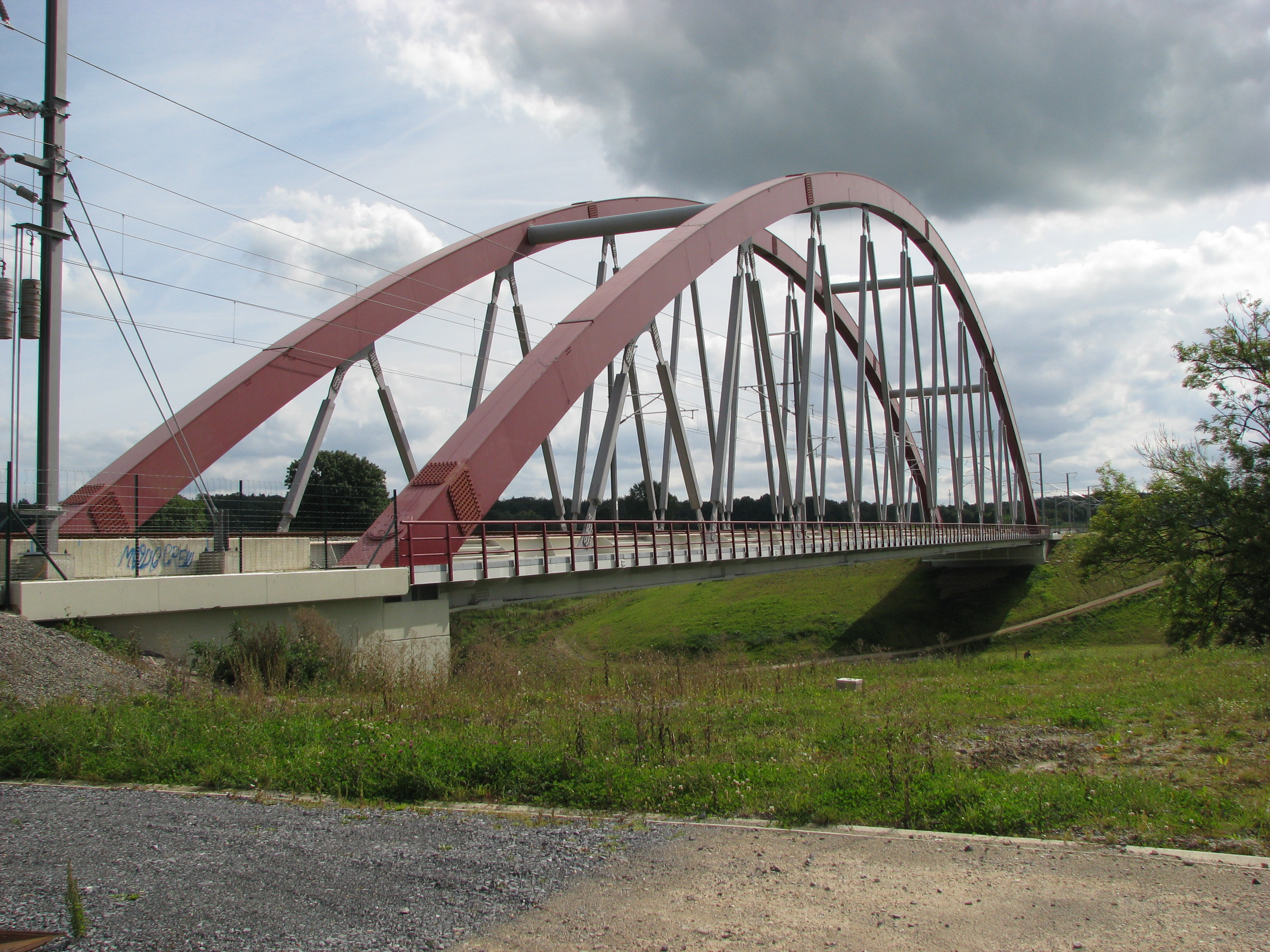 Railwaybrige in Hauset, Belgium, Highspeedline 3 between Aachen and Liège.